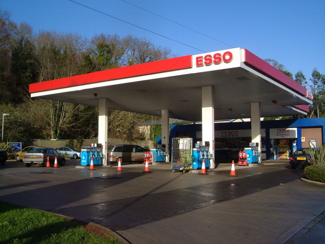 Esso garage, Teignmouth Road, Torquay With a Tesco Express attached. Can't use your Clubcard when you buy petrol, though.